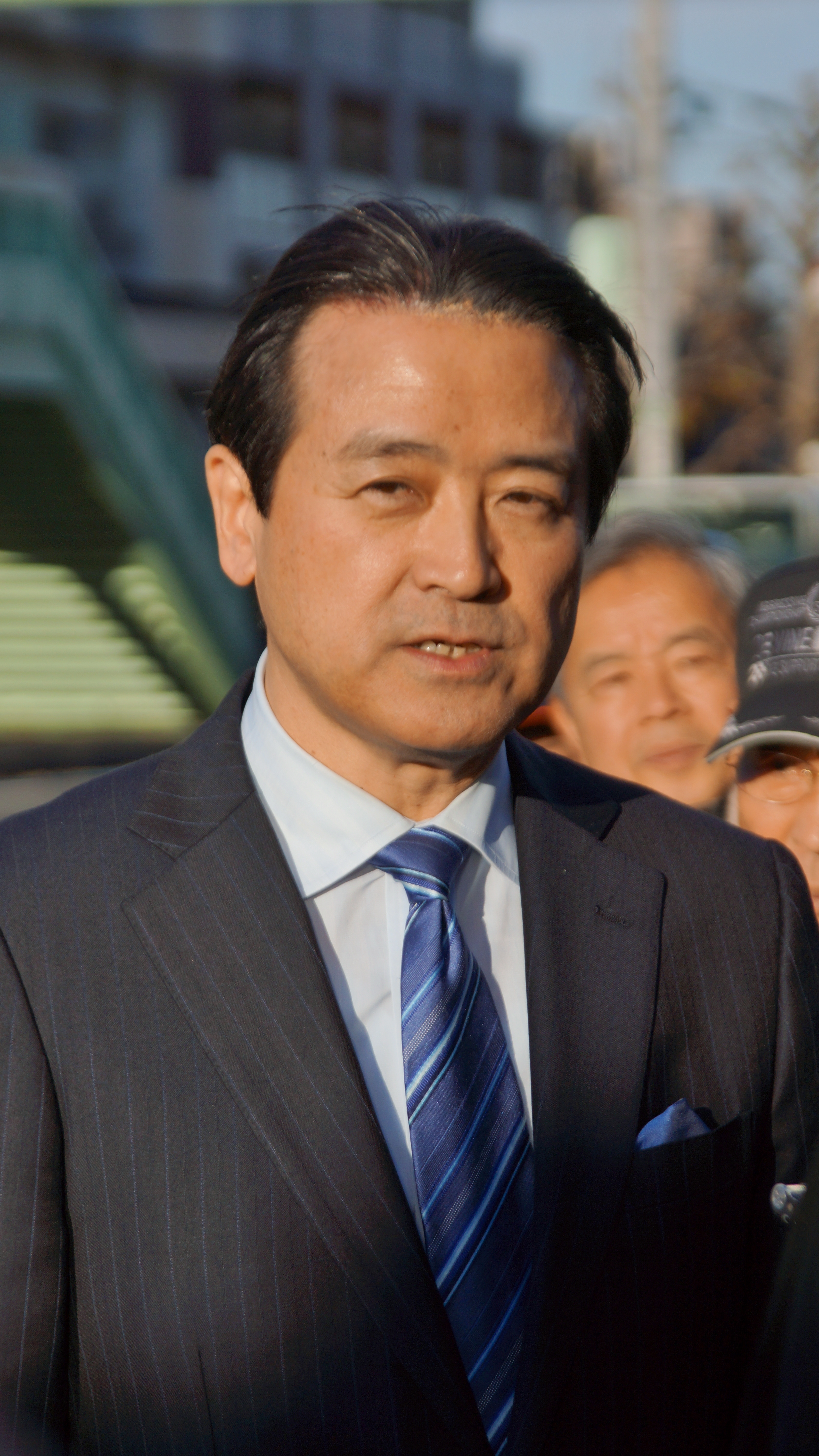 Japanese politician Kenji Eda speaking in front of Wakaba Station in Sakado, Saitama, Japan, in the run-up to the December 2014 general election